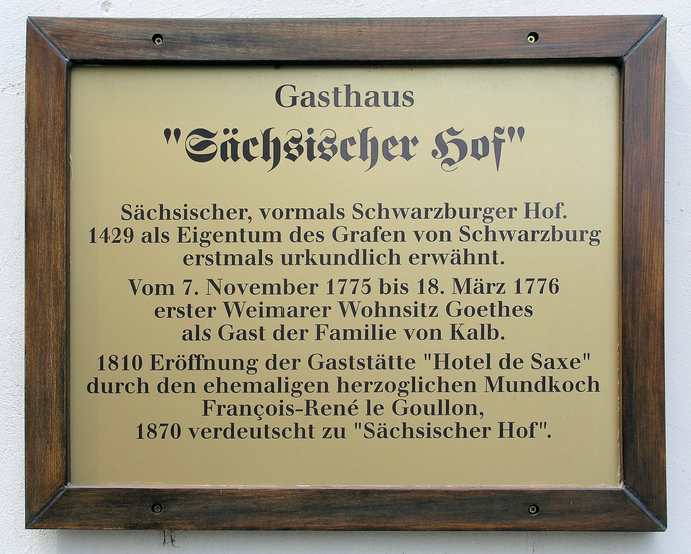 Memorial plaque, Sächsischer Hof, Eisfeld 12, Weimar, Germany